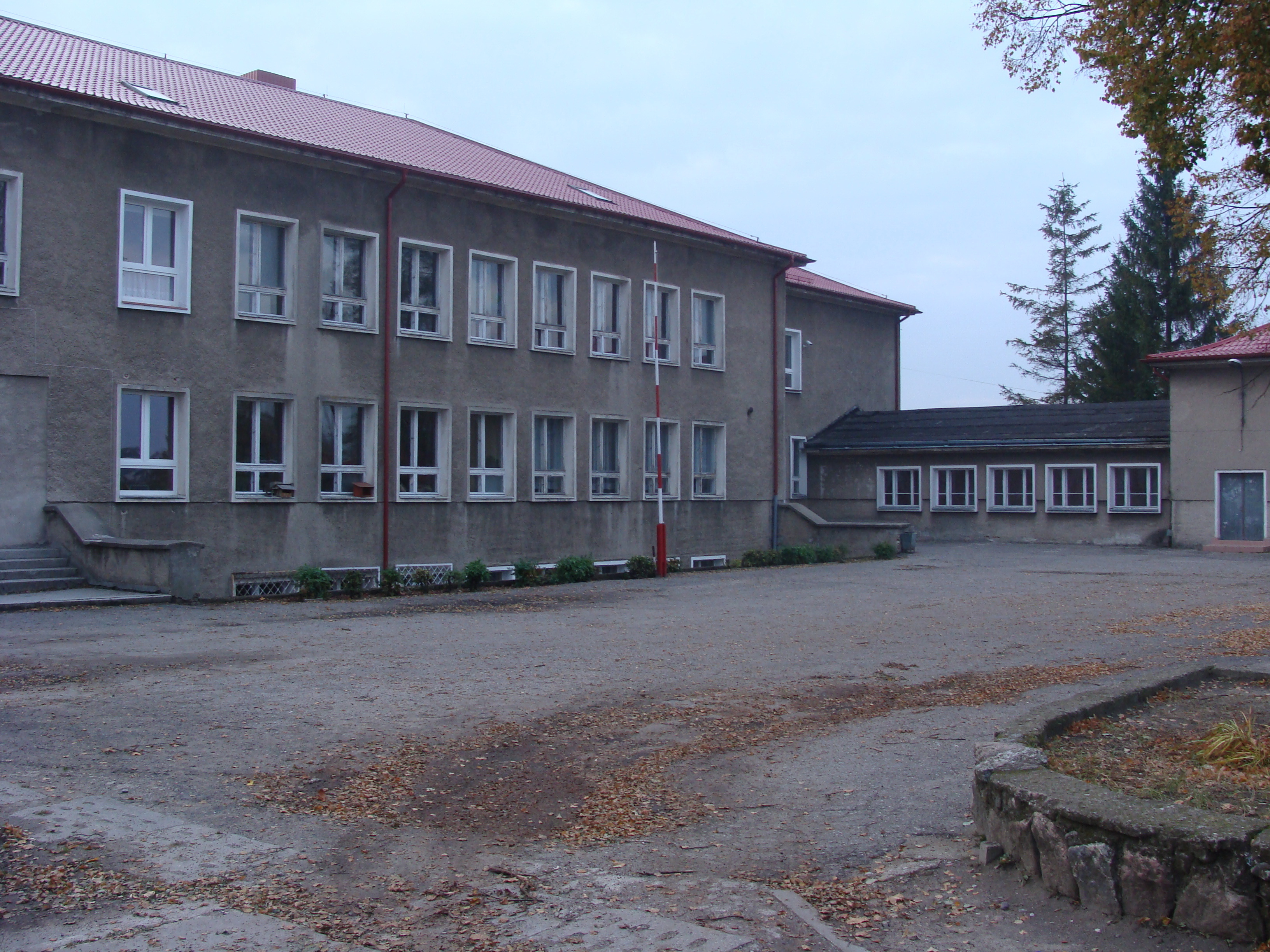 Build of school in Stary Targ